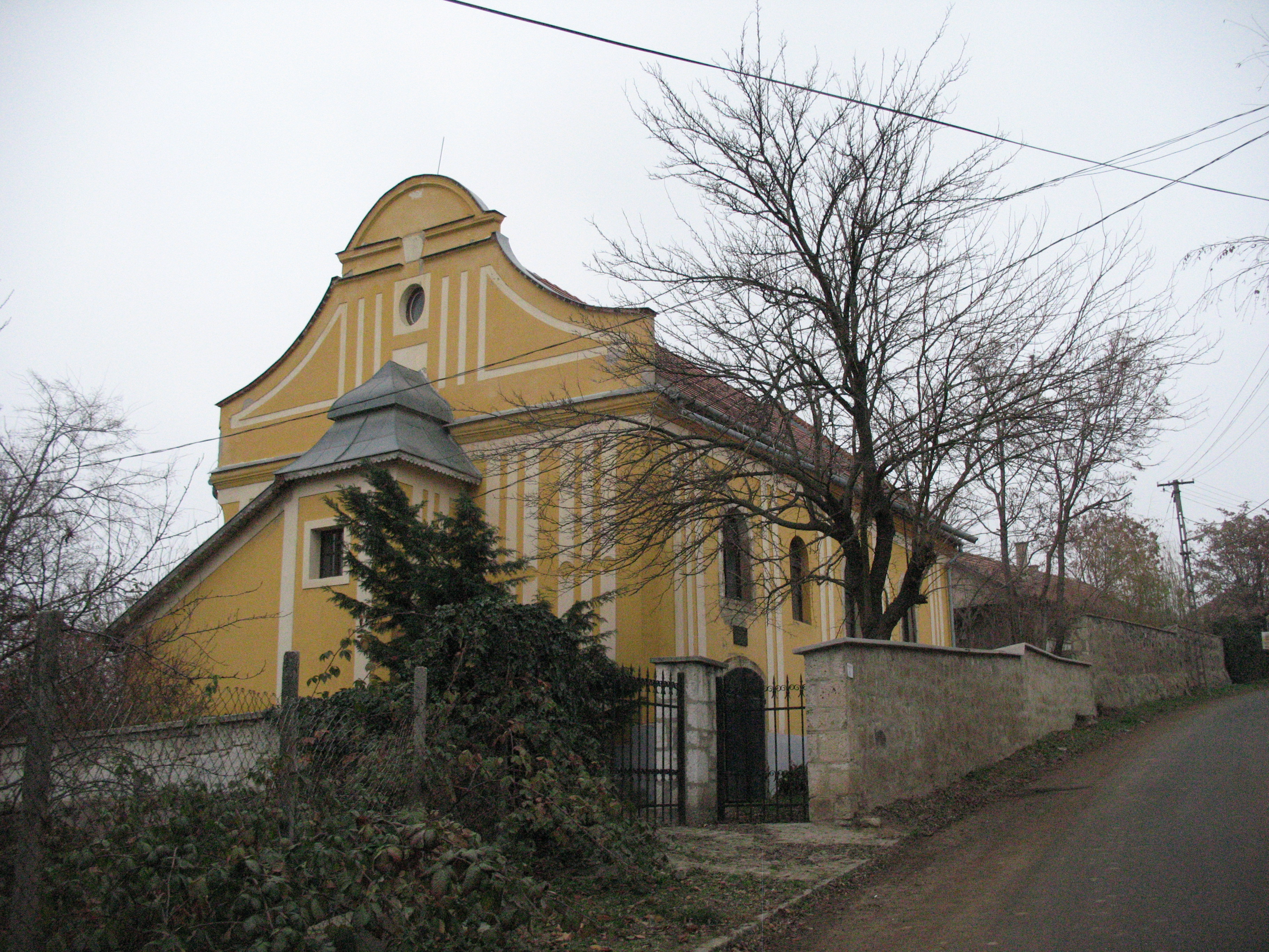 Former synagogue in Tarcal, Hungary